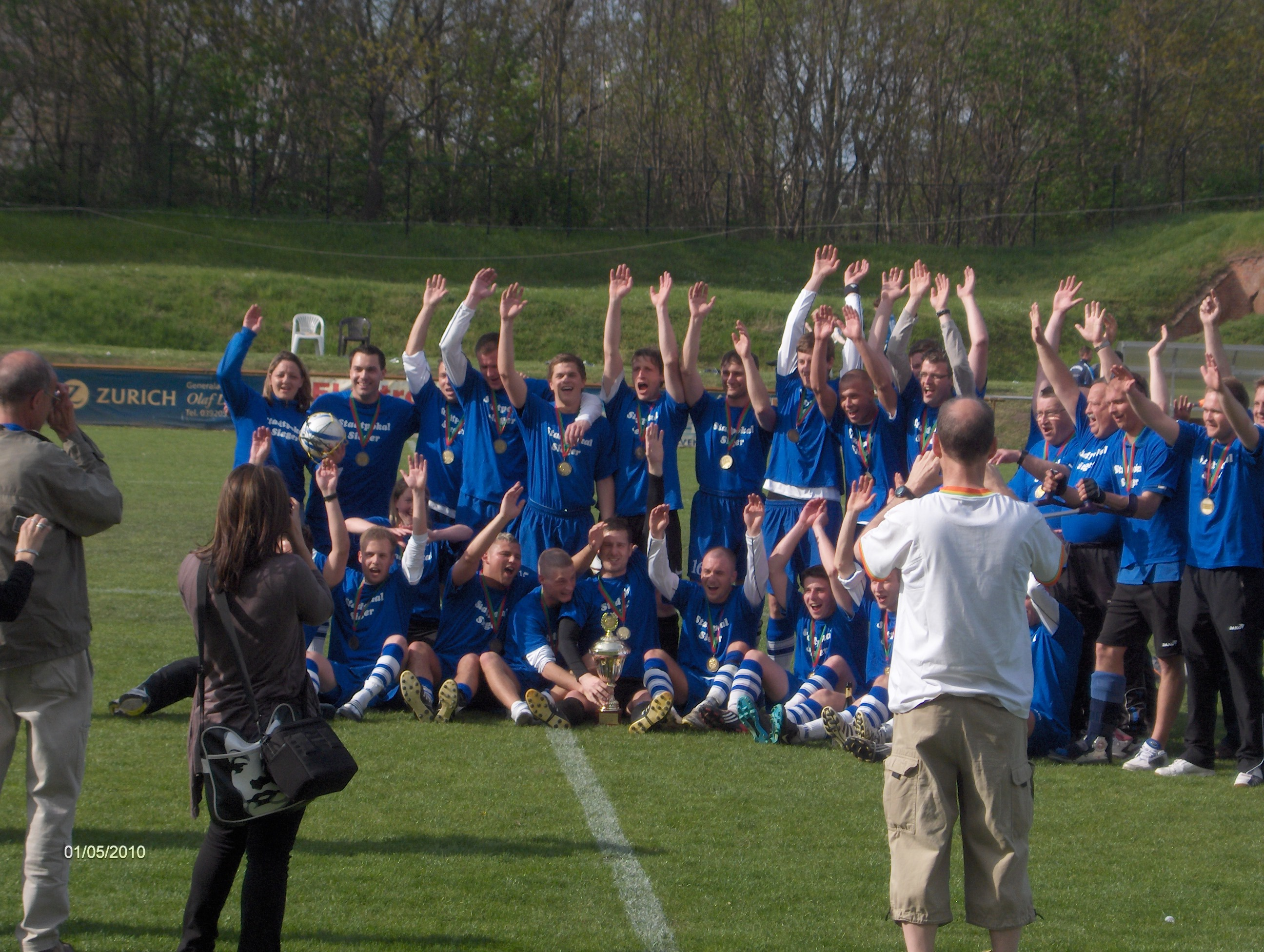 The team of the SV Fortuna Magdeburg celebrate the winning od the City Cup 2010.